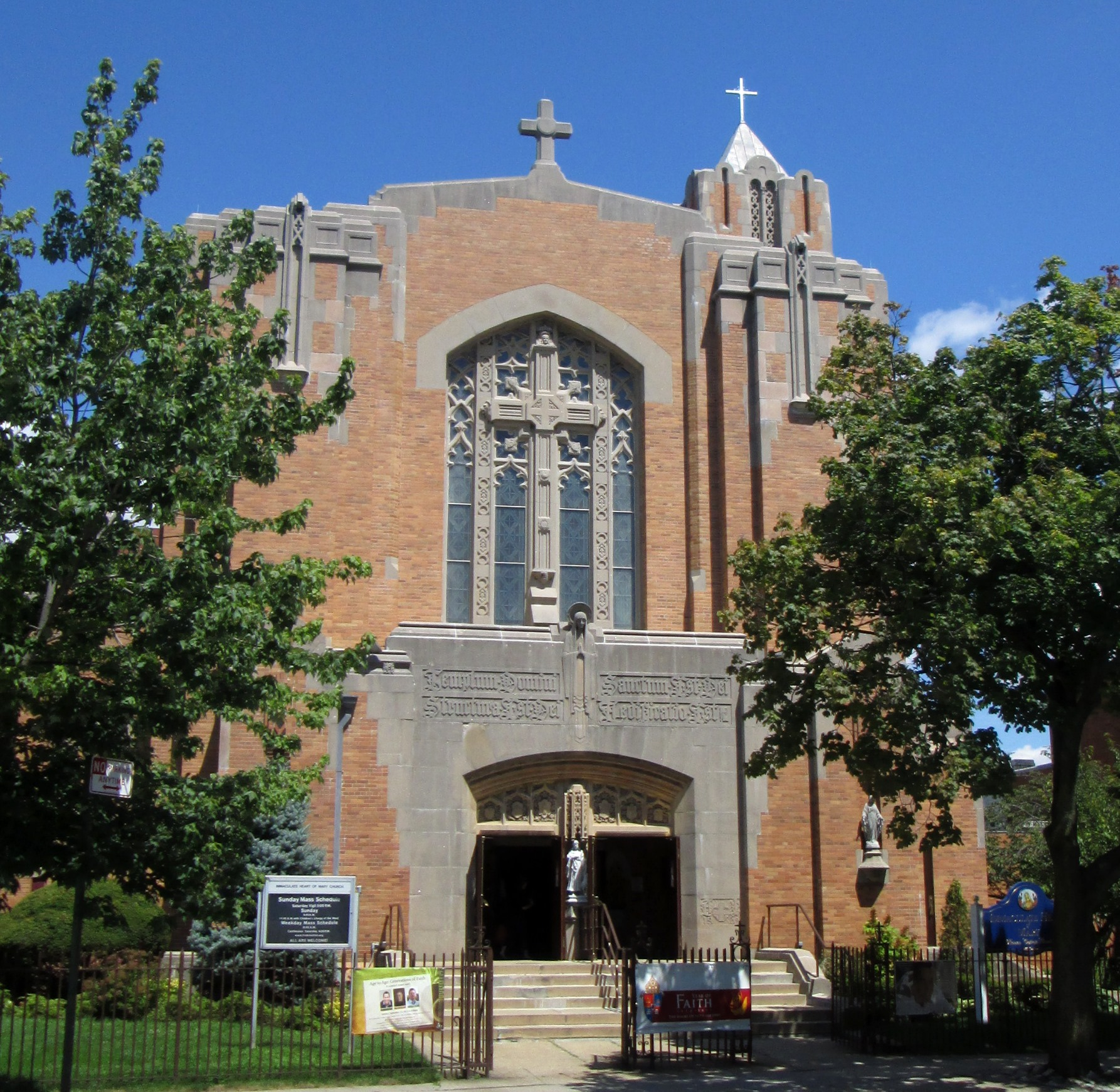 The Immaculate Heart of Mary Roman Catholic Church at 2805 Fort Hamilton Parkway at the corner of East 4th Street in the Windsor Terrace neighborhood of Brooklyn, New York City was founded in 1893. The congregation worshiped at a hall on Vanderbilt Avenue in Windsor Terrace before building a church on Ocean Parkway. The present church in the Art Deco and Gothic Revival styles was built in 1931-32. (Source: NYCAGO)